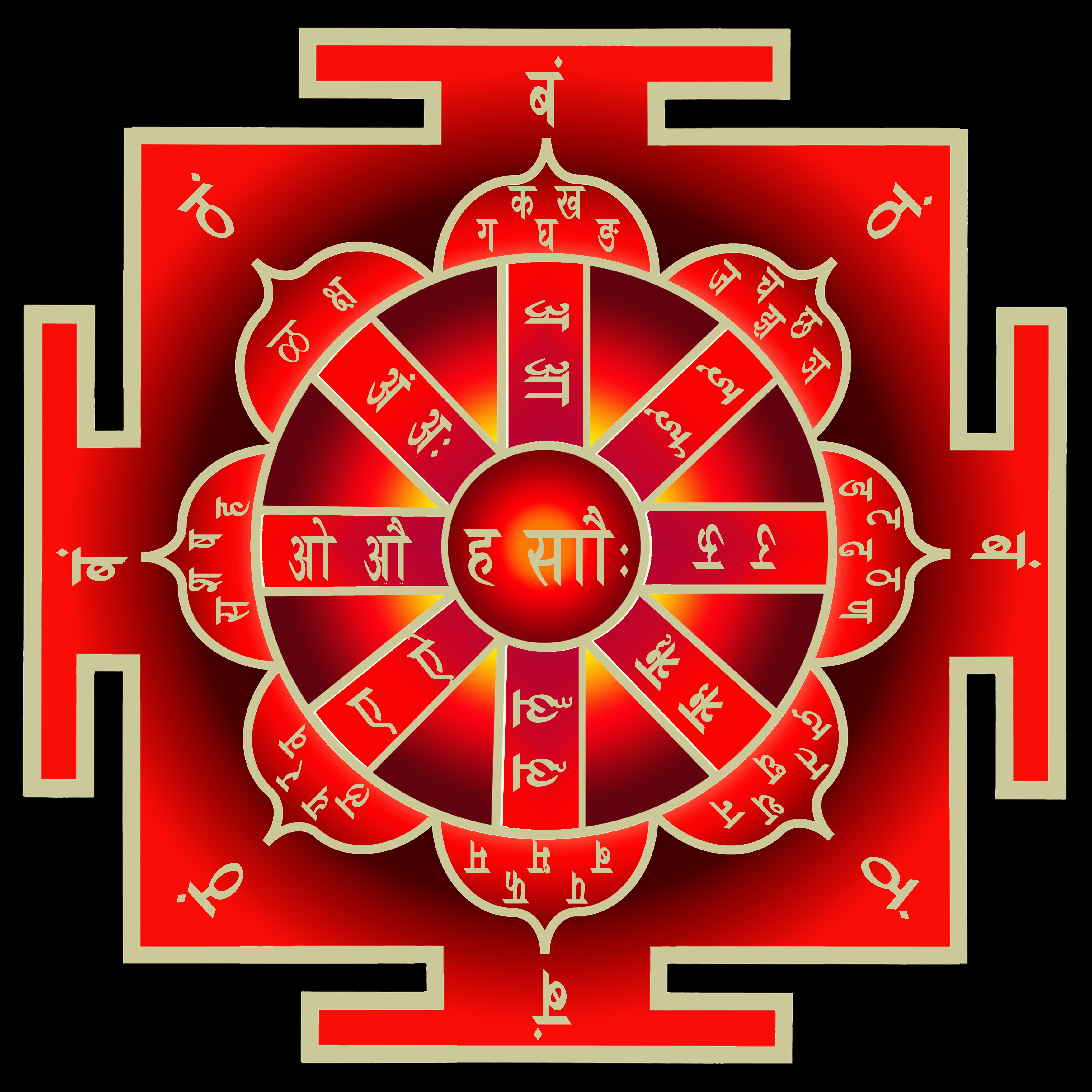 Matrika Chakra